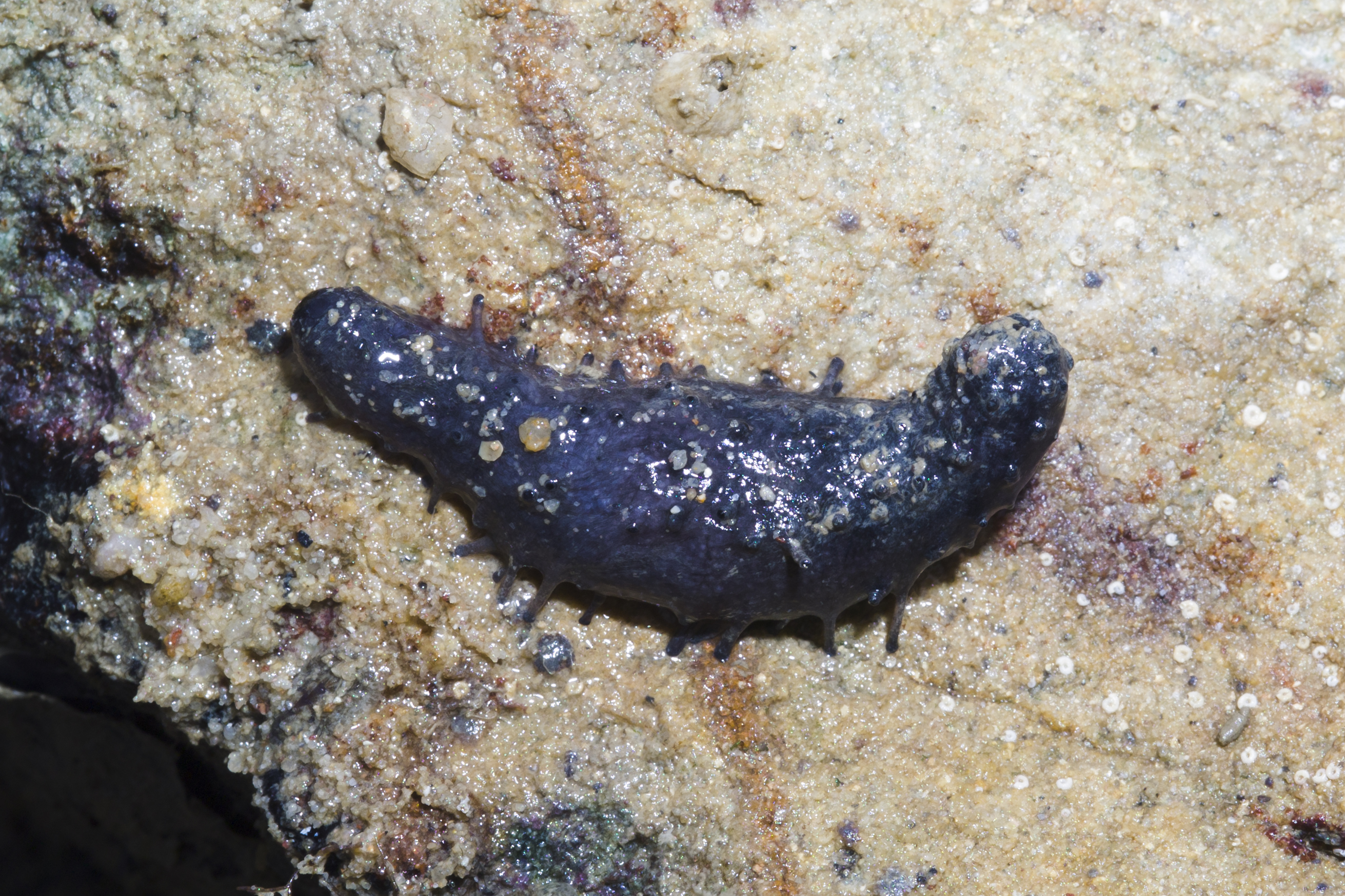 Little African sea cucumber (Afrocucumis africana). More about this sea cucumber on the wildfacts sheets on wildsingapore. For a high res version of this photo, please review the details on about using my photos. When making the request, please include this reference: 050529sjig7200